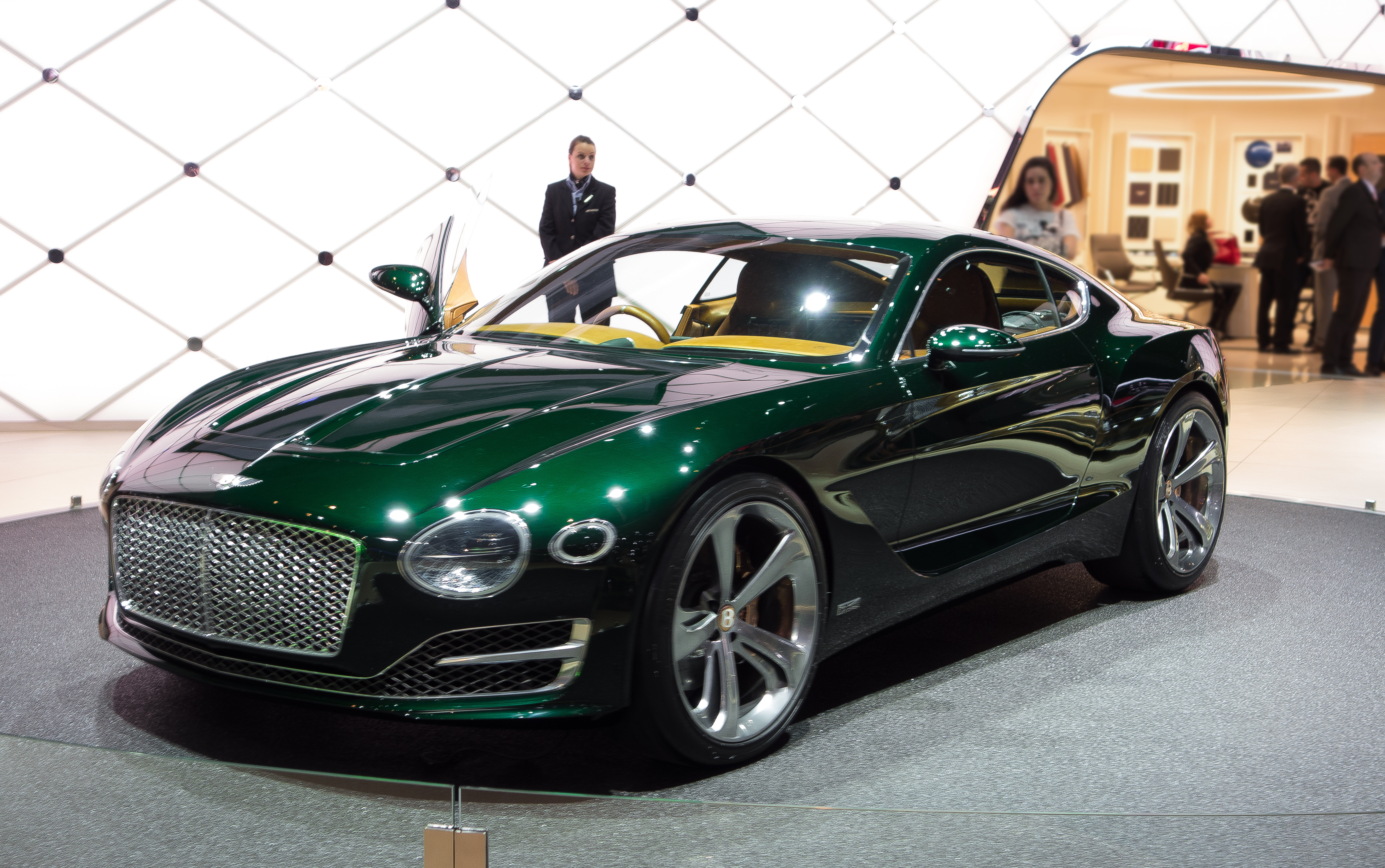 2015 Bentley EXP 10 Speed 6 concept car at Motorshow Geneva.